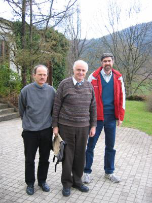 Dietmar Kroner, Constantine Dafermos, and Randall LeVeque at the Oberwolfach Workshop on Hyperbolic Conservation Laws, 2004.